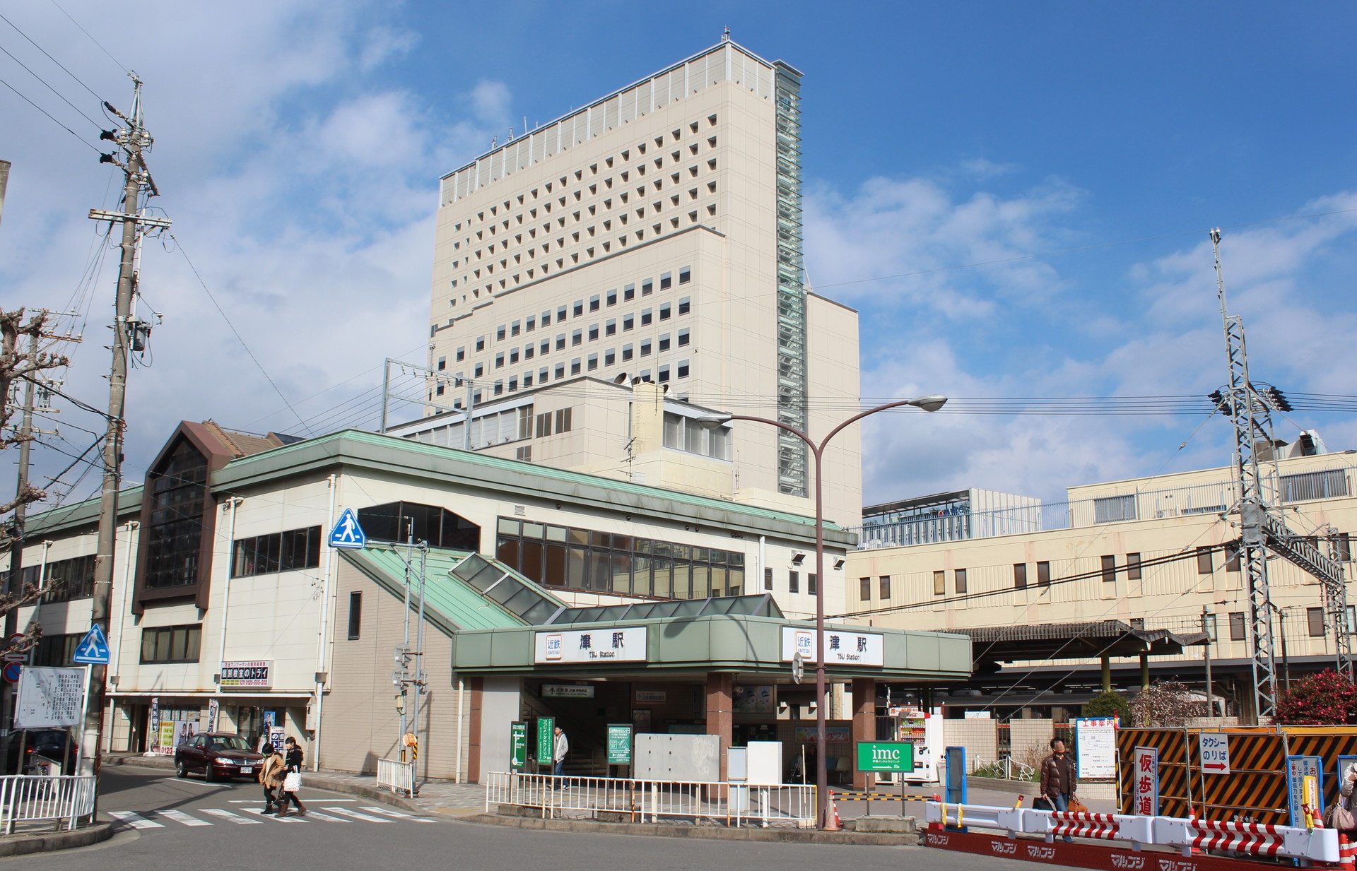 Tsu Station and UST-TSU